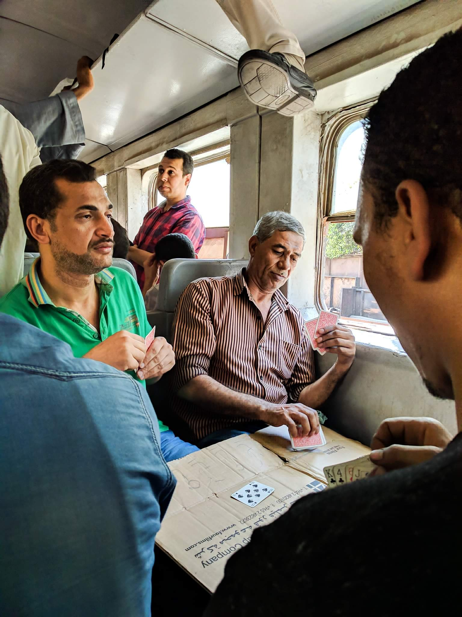 This is an image with the theme "Play" from: Egypt